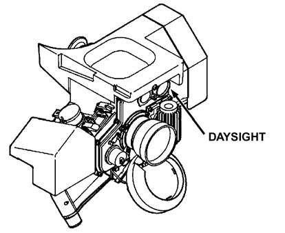 Javelin CLU Daysight